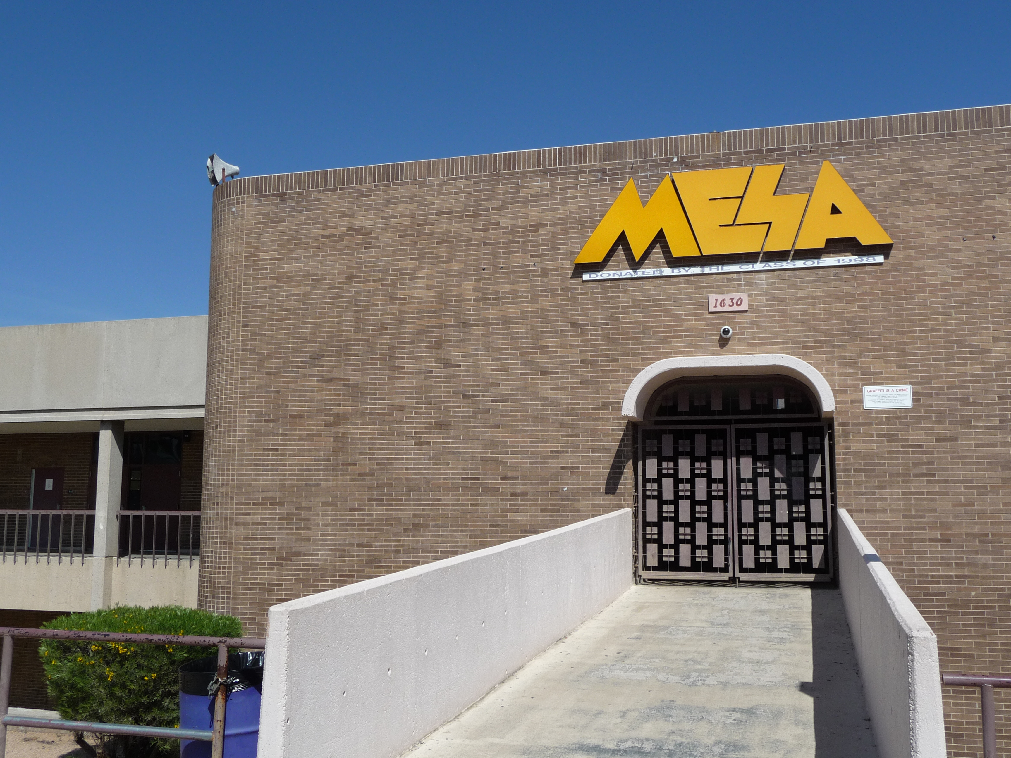 An entrance to Mesa High School (Mesa, Arizona), featuring the school's trademark block logo.